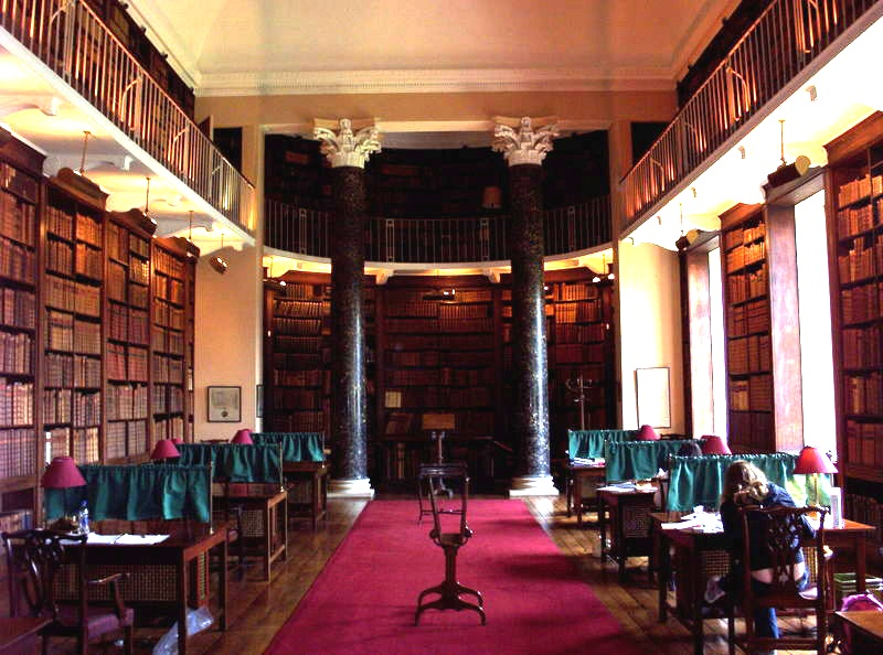 Photograph of the interior of the Senior Library, Oriel College. Photo taken by me, brightness and contrasted adjusted using photoshop. --Alf melmac 17:26, 14 May 2006 (UTC)